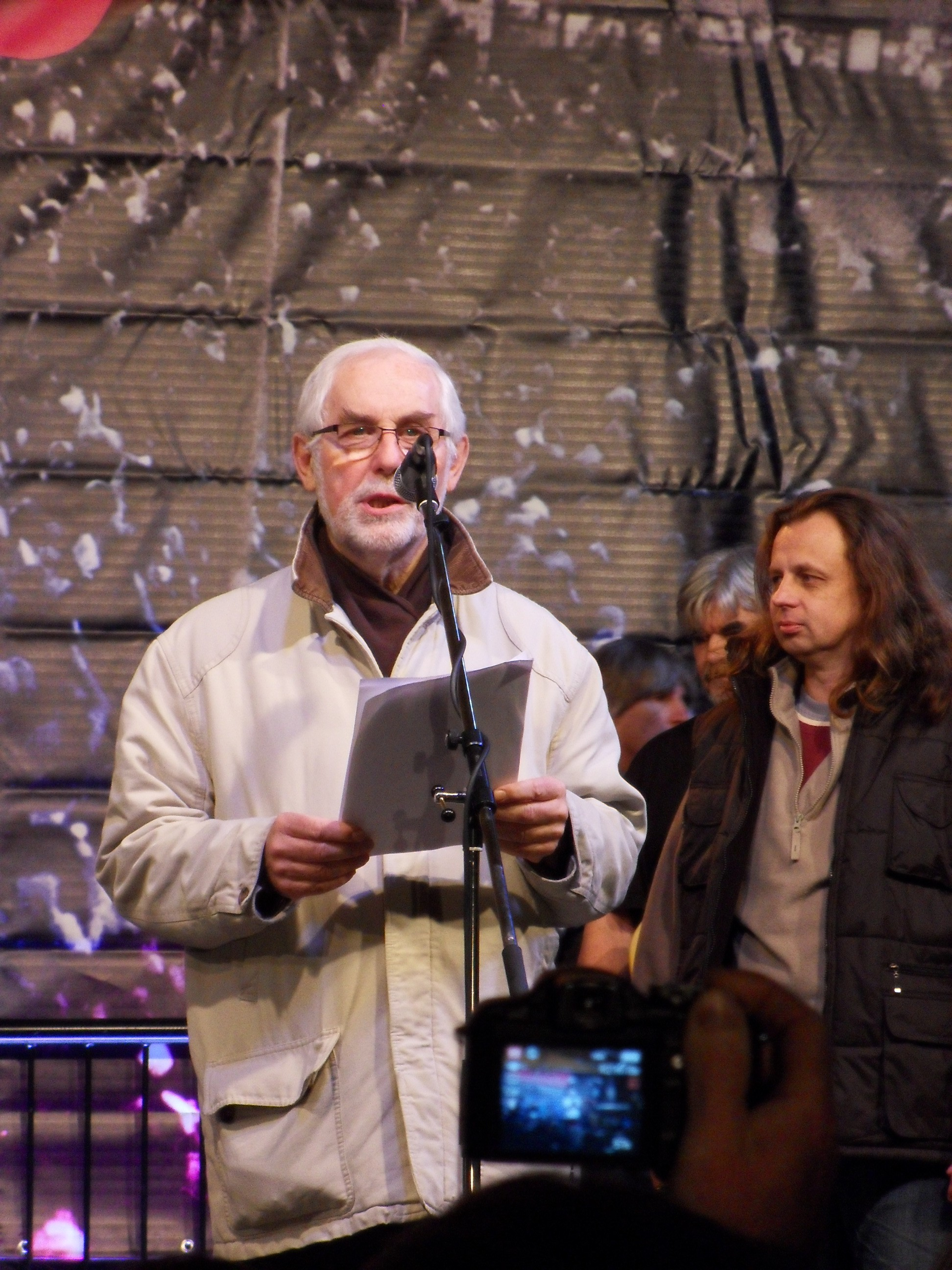 František Derfler, czech actor and director